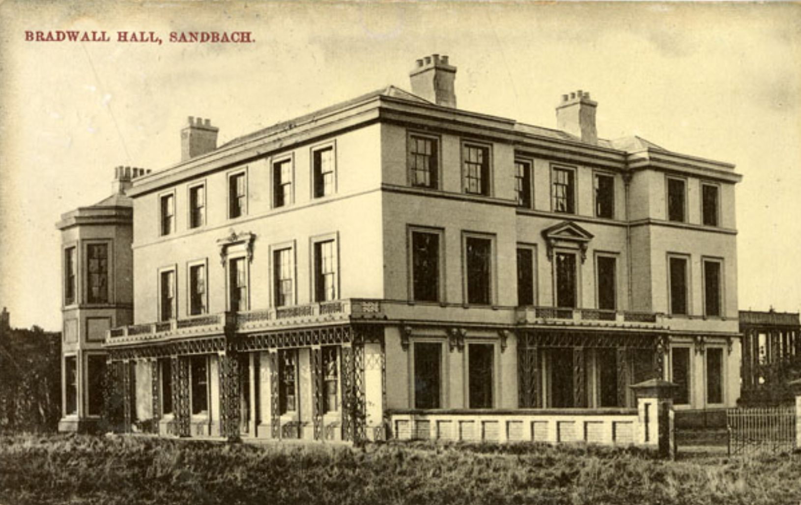 Bradwall Hall, Sandbach, the seat of the Latham Family. Demolitioned in the 1920s (ref). Photographer unknown, deceased at least 70 years ago. Source: Paul Latham, descendant.